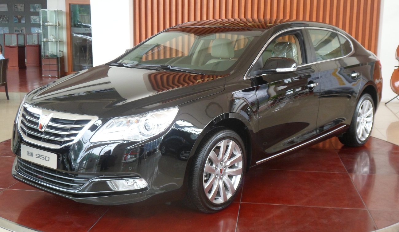 Roewe 950 photographed in Shanghai, China.